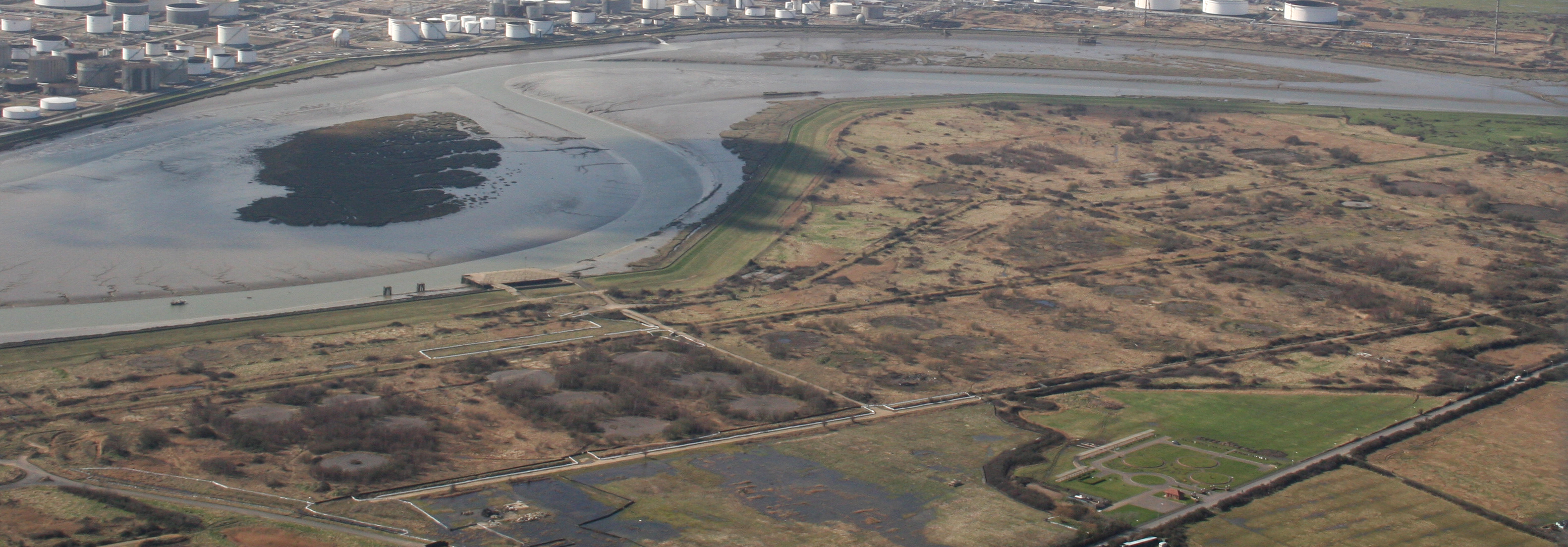 aerial photo of Canvey Island